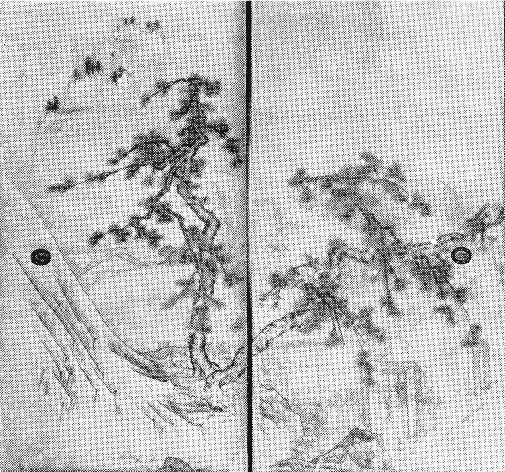 Sliding doors at Fumon-in